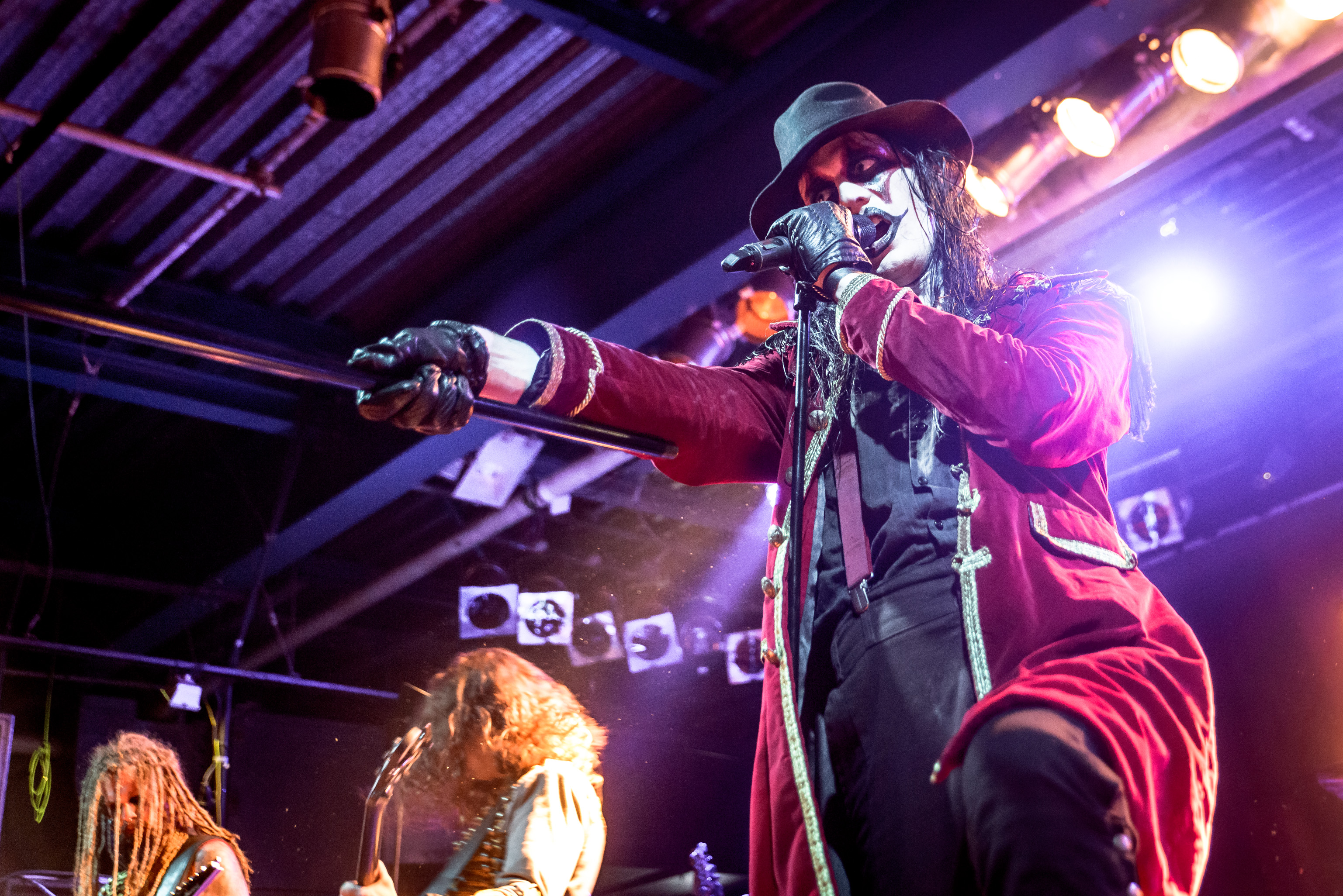 Avatar Live @ Free & Easy Festival 2015